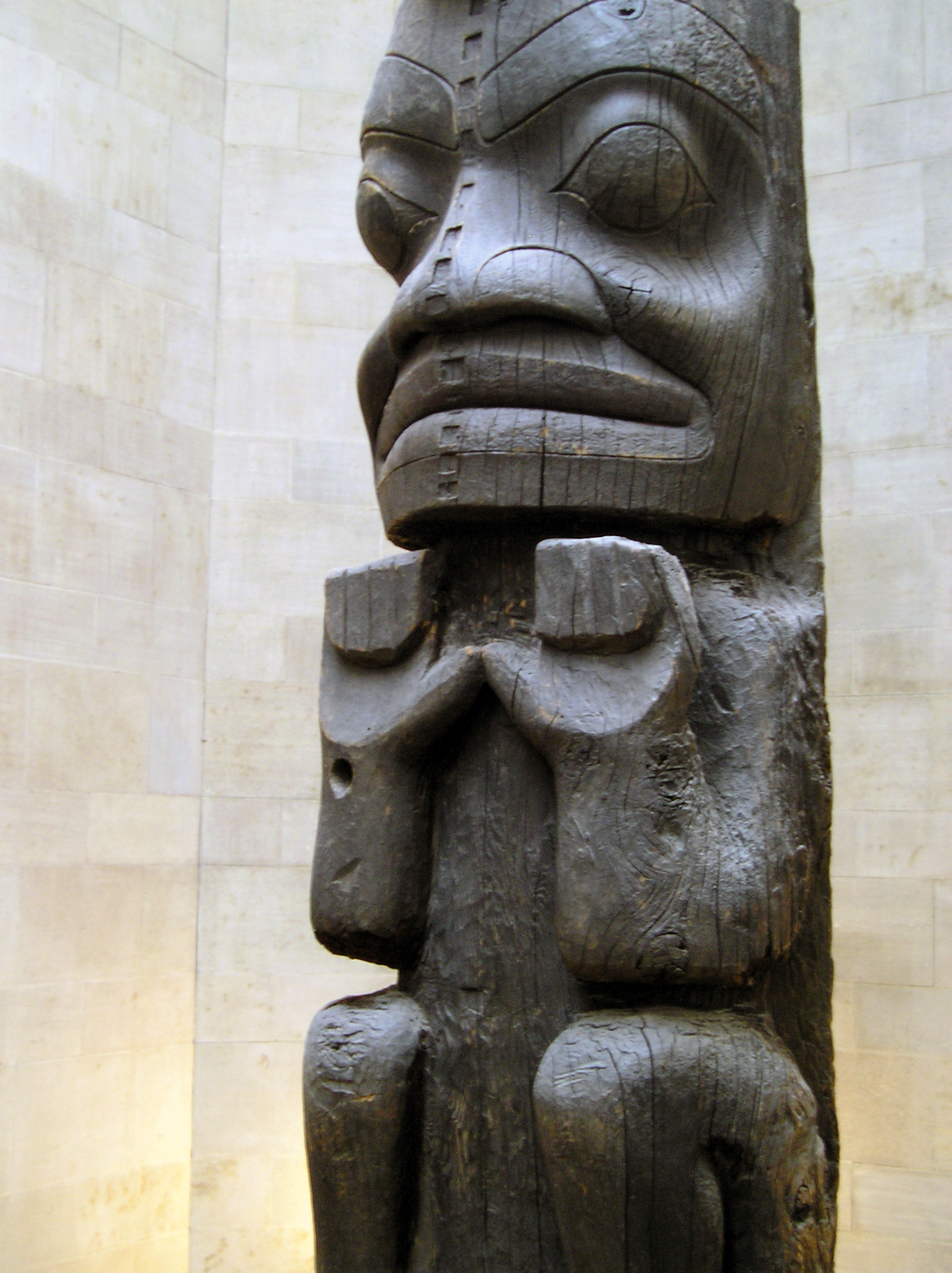 Sag̱aw̓een pole (Nisga'a) in the staircase of the Royal Ontario Museum, Toronto.